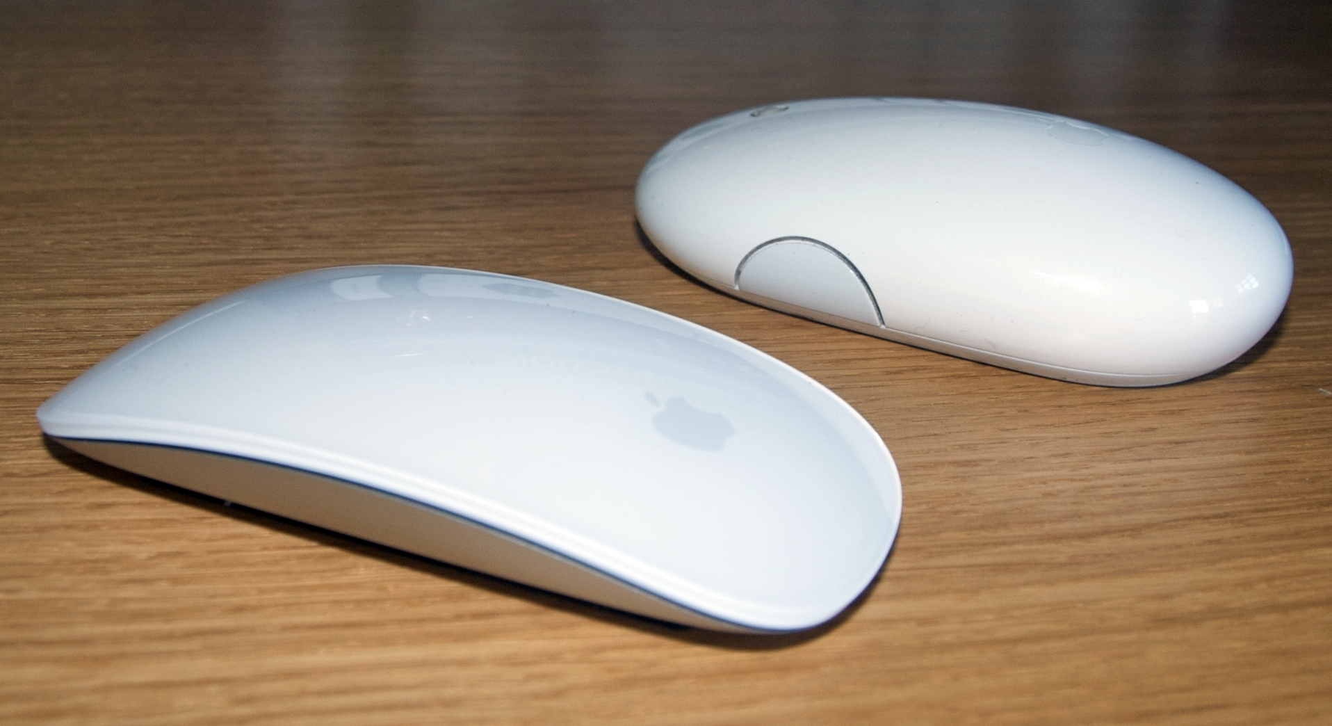 Apple Magic Mouse (left) and Apple Mighty Mouse